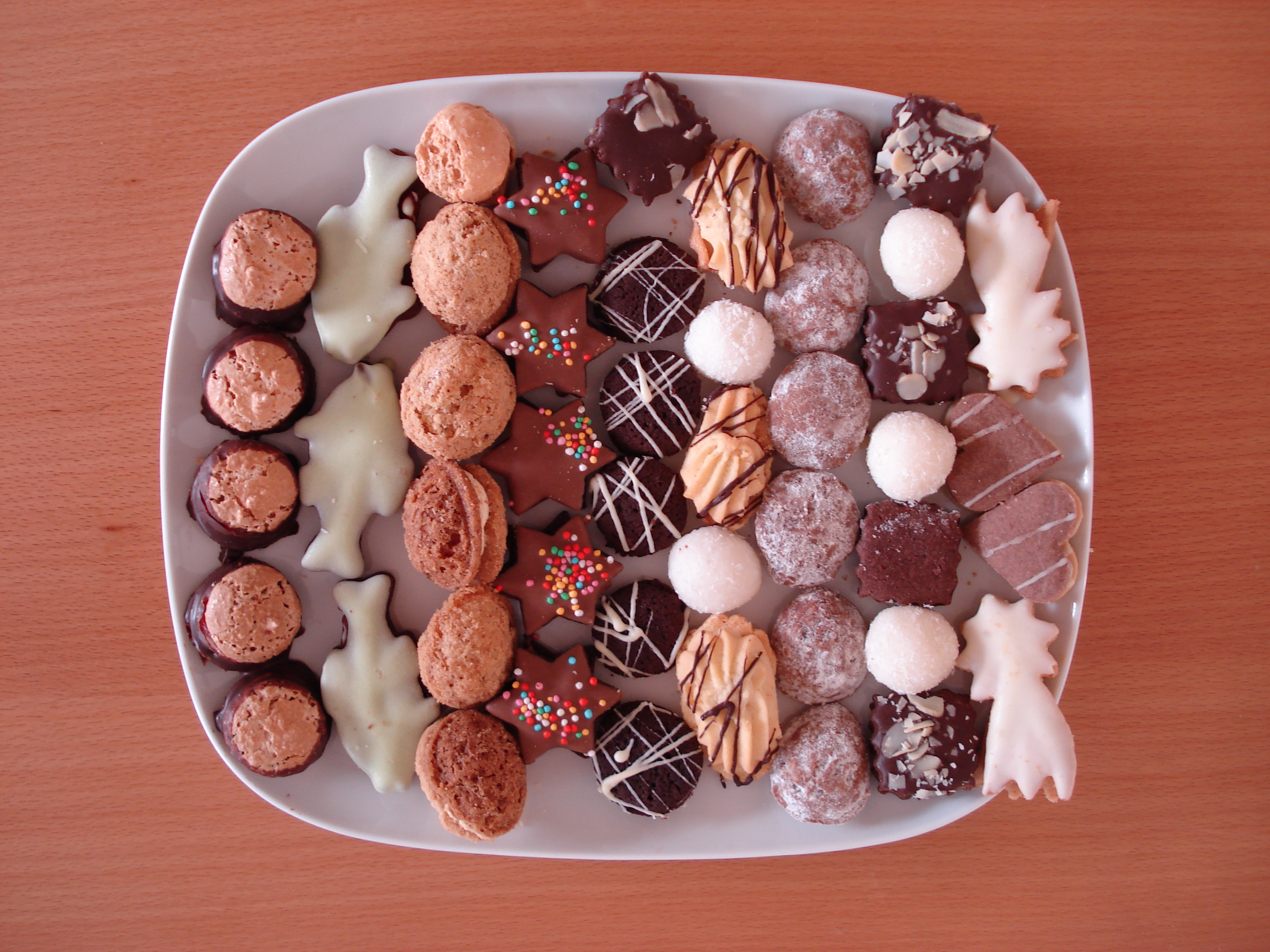 Christmas cookies in Czech republic.